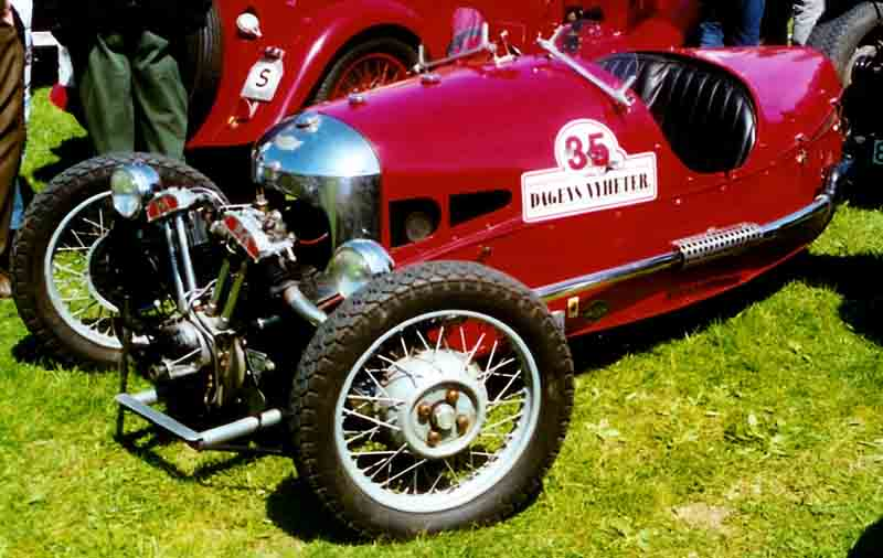 Morgan Super Sports 2-Seater Sports 1935 (Matchless engine)